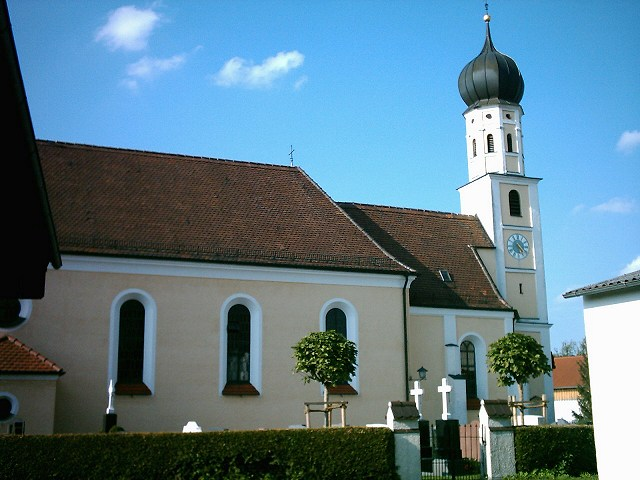 Church in Anwalting (Affing) / south view